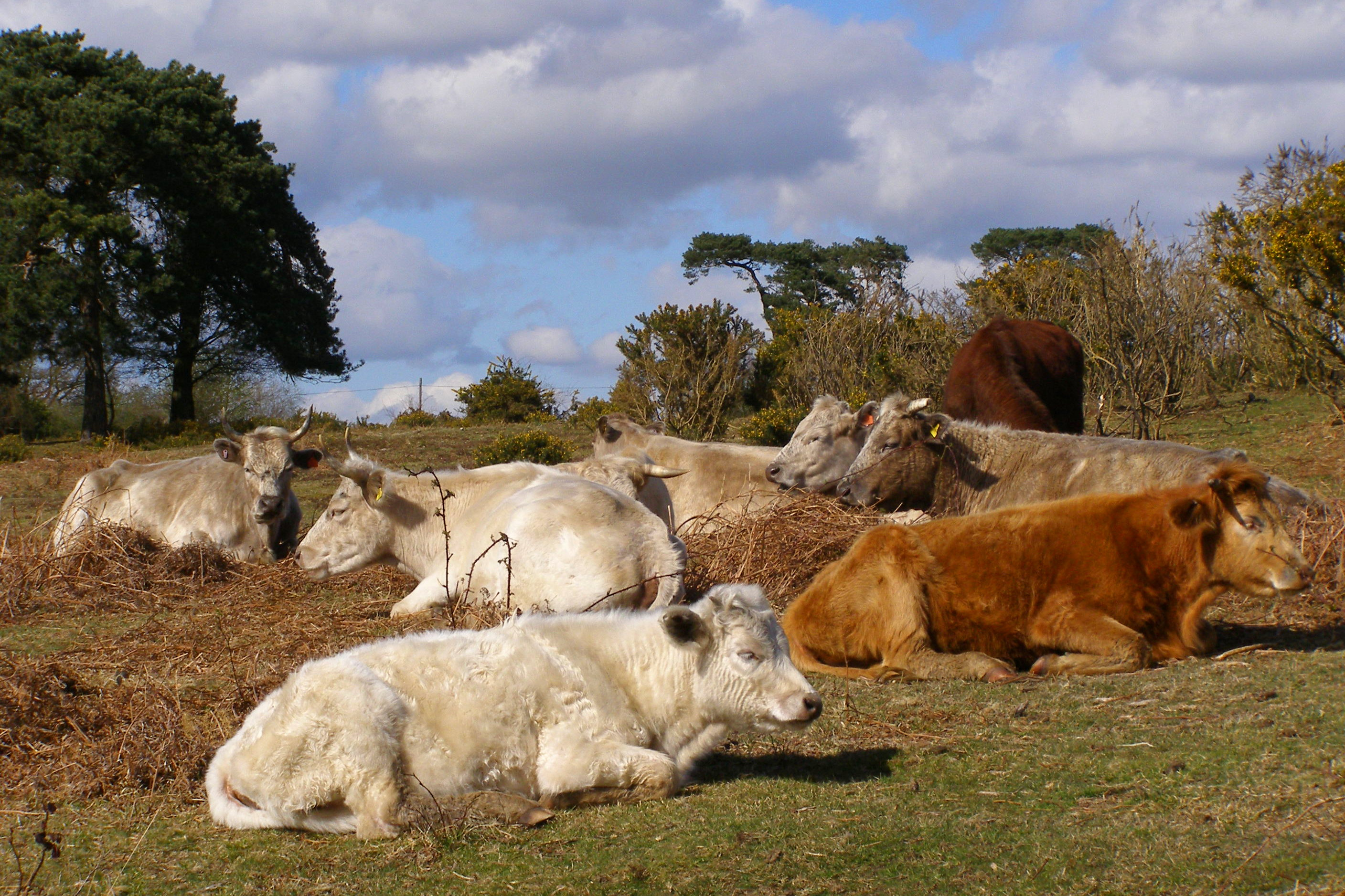 Near Longdown car park.